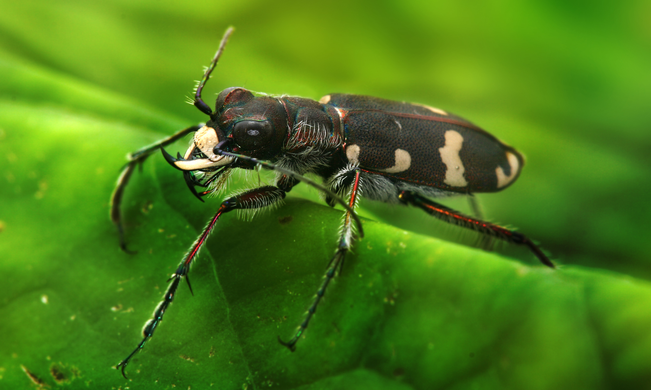 Description: The tiger beetles are a large group of beetles known for their predatory habits. As shown a Sandlaufkäfer 'Cicindela hybrida'